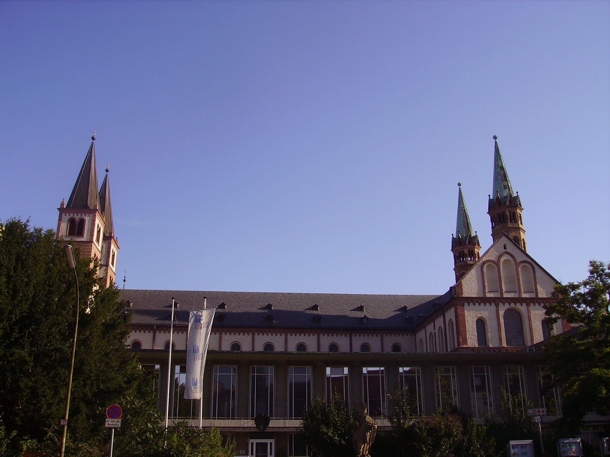 Catholic Cathedral/Minster Sts. Kilian, Kolonat & Totnan, Würzburg